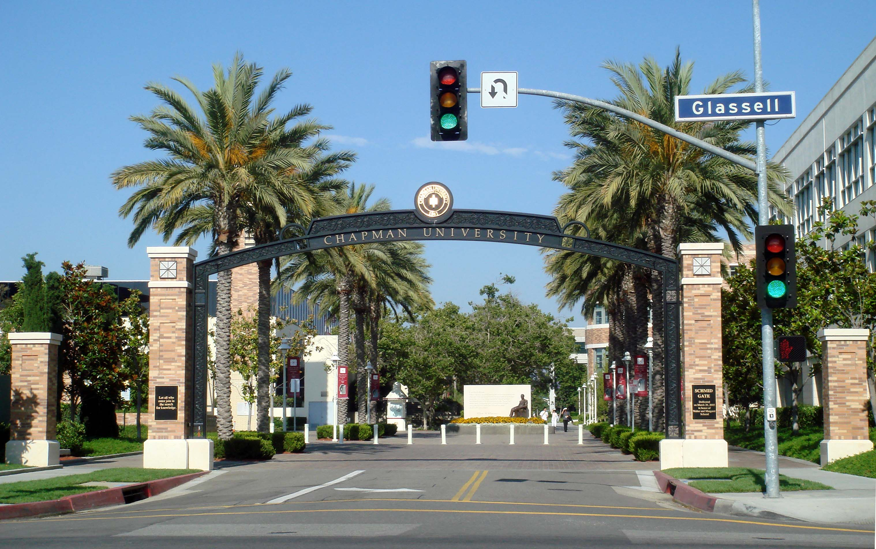 Schmid Gate entrance to Chapman University (Orange, California).